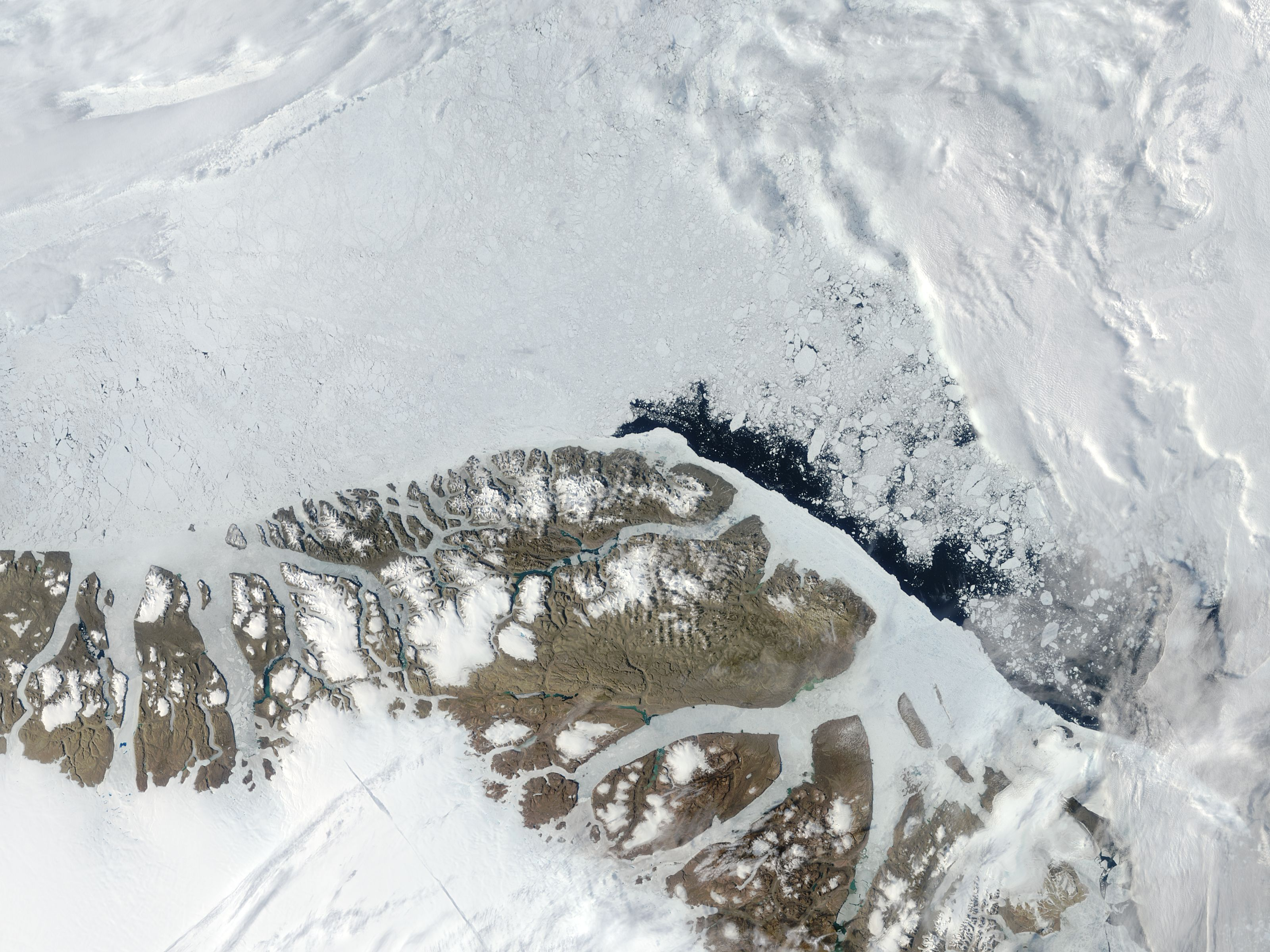 Northern Greenland (Peary Land): Moderate Resolution Imaging Spectroradiometer (MODIS) on NASA’s Terra satellite